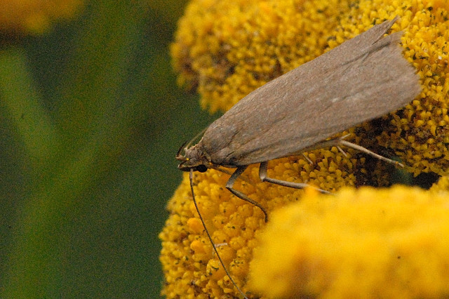 Picture taken in Commanster, Belgian High Ardennes . Species: Scrobipalpa acuminatella